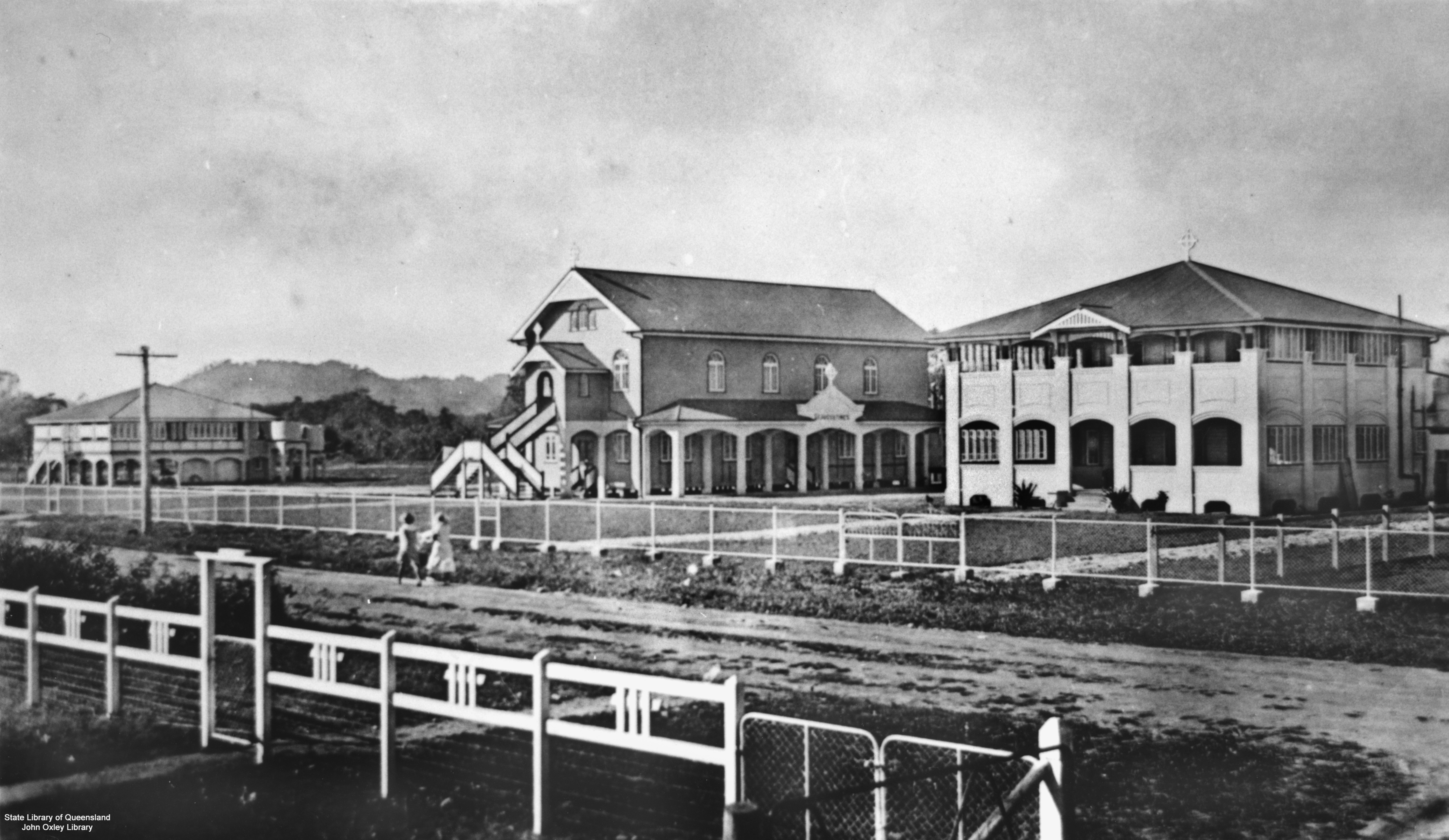 Roman Catholic Church and Convent, Mossman, Queensland. Buildings from left, the Catholic presbytery, St Augustine's Church-School, (church upstairs, school downstairs) and the Convent of Mercy. The presbytery was opened on 11 December 1932. The combined Church-School building was opened 29 April 1934 and the Convent, later that year.